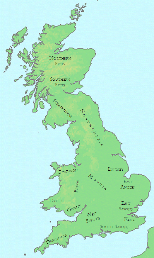 This is a map showing the locations of the kingdoms of Britain in the late seventh century. The file was created using DMIS. On that site it is stated that "We do not claim copyright on the images, so you can use them for Wikipedia." This map is based on a map found in Peter Hunter Blair's "Roman Britain and Early England: 55 B.C.-871 A.D.", W.W. Norton, 1963, p. 209. I have removed Bernicia and Deira from Blair's version since they had lost their independence by the last years of the seventh century.